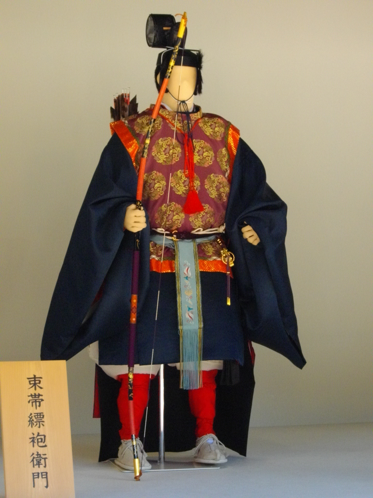 Sokutai-Hanadahou for the gatekeepers